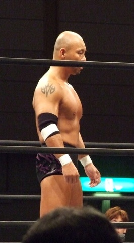 Professional wrestler Jado at a New Japan Pro Wrestling event.